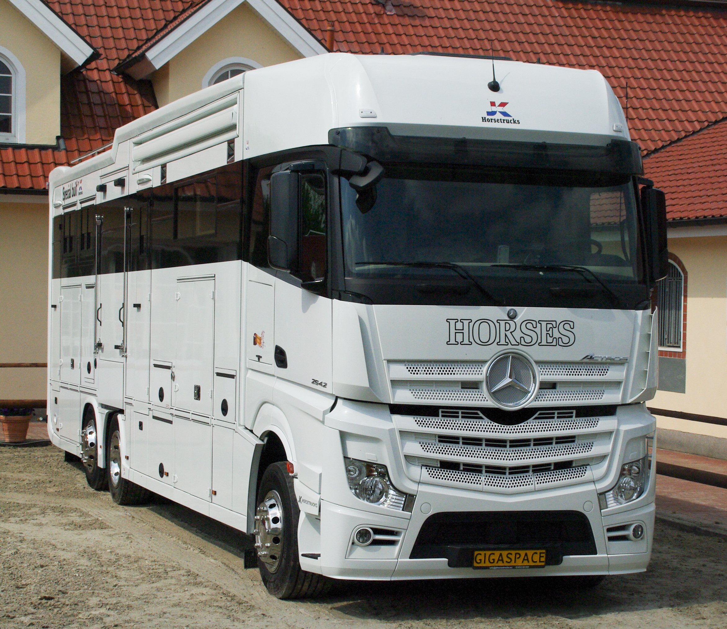 Horses & Dreams 2014